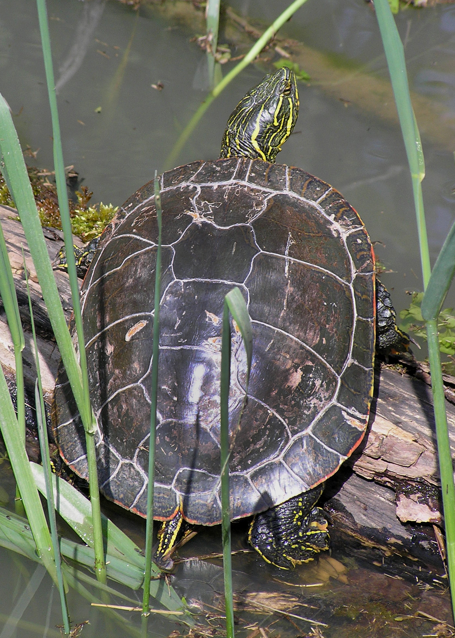 The western painted turtle (Chrysemys picta bellii) in Oregon, USA.